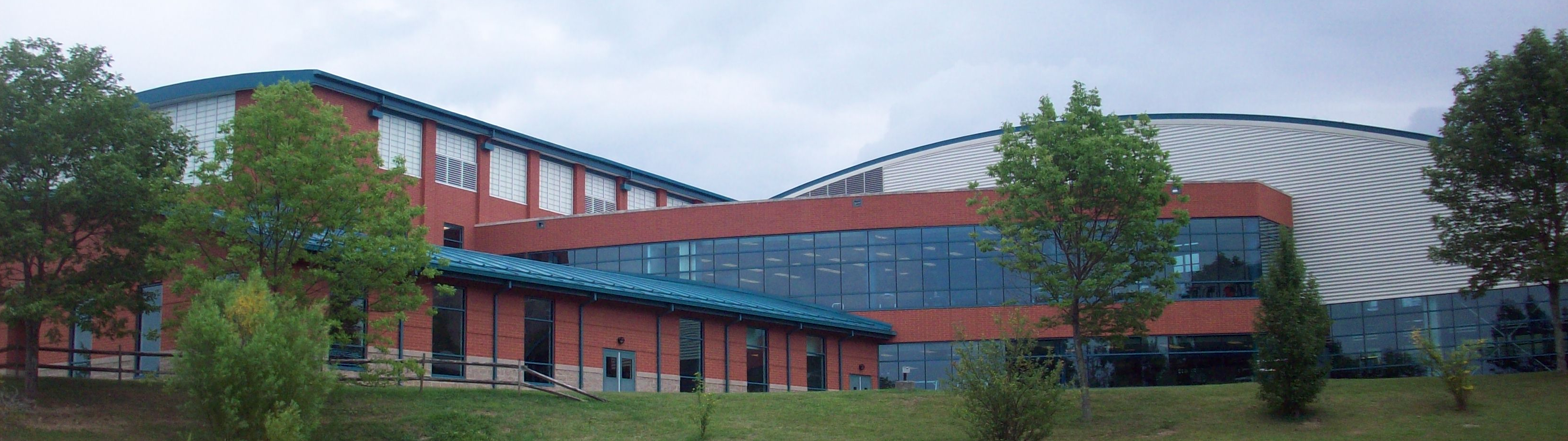 The WVU student recreation center on the Evansdale campus.